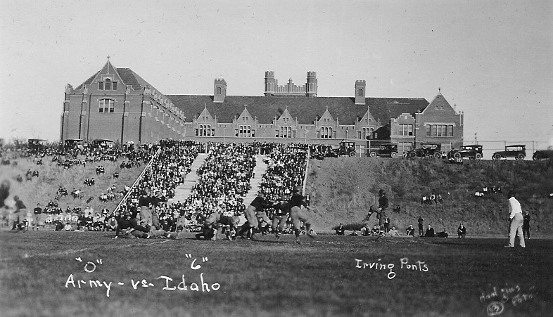 MacLean Field on the University of Idaho campus. The home stadium of the Idaho Vandals football team from 1914–1936, it here appears during a game against the 9th Army Corps (Fort Lewis, WA) on October 8, 1921. (source of precise date)